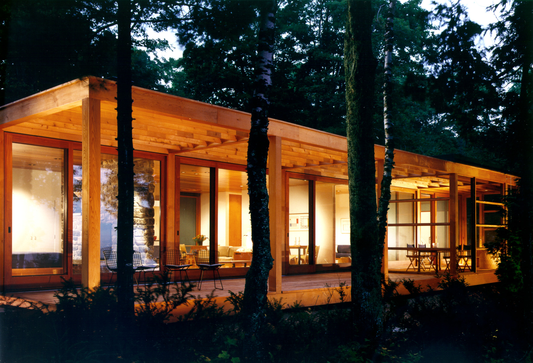 The Architect's Cottage maximizes views to Lake Michigan and the woods with as little impact to the natural environment as possible.